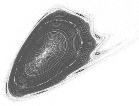 Bogdanov map